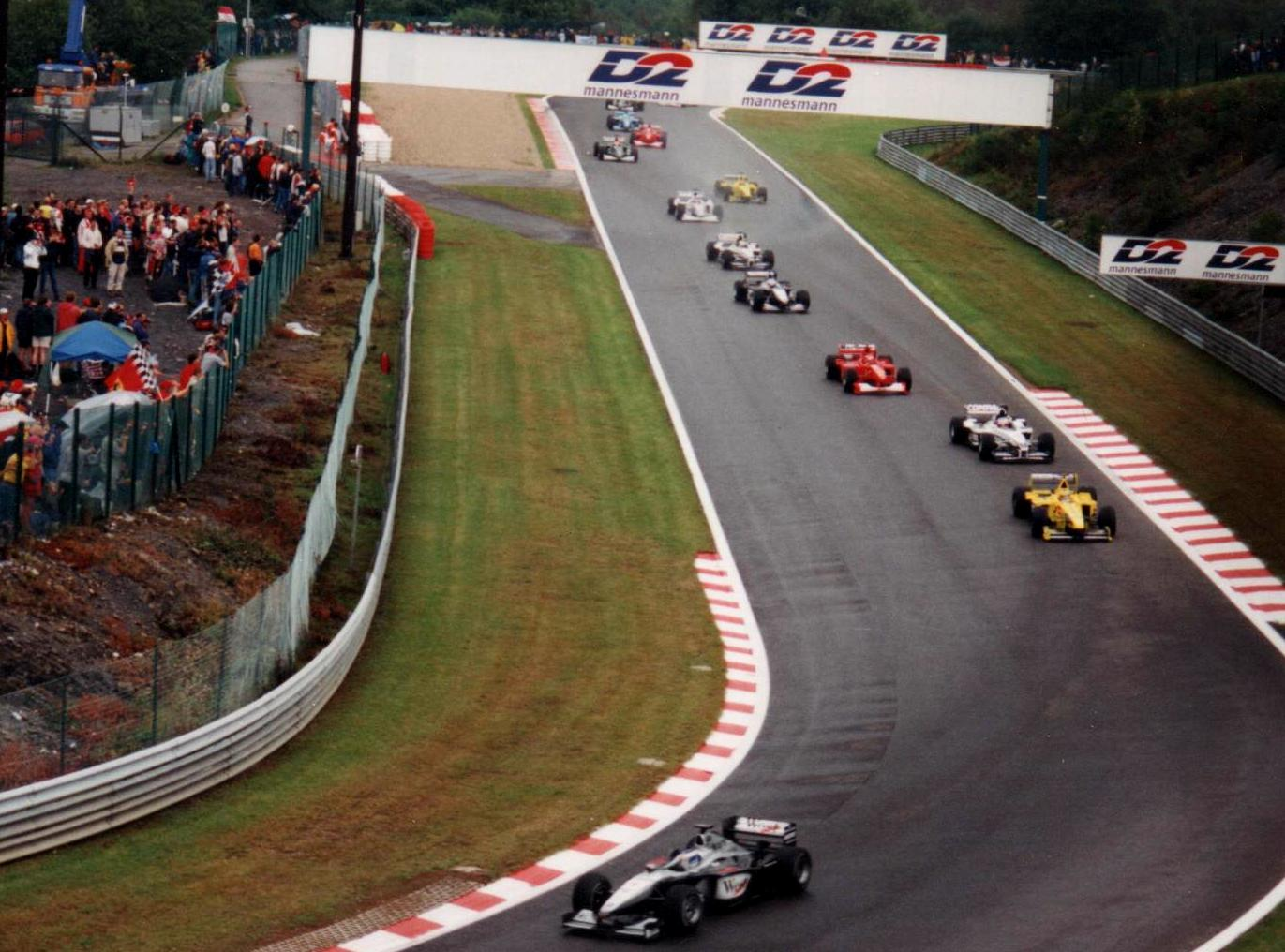 2000 Belgian Grand Prix